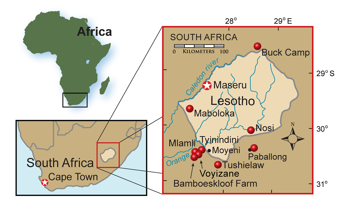 Heterodontosaurid localities in South Africa and Lesotho. Locality(ies)/taxon identification: Nosi/Abrictosaurus consors; Mlamli, Tushielaw, Tyinindini/Heterodontosaurus tucki; Bamboeskloof Farm, Buck Camp, Paballong/Lycorhinus angustidens; Maboloka/Heterodontosauridae incertae sedis; Voyizane/ Pegomastax africanus gen. n. sp. n.